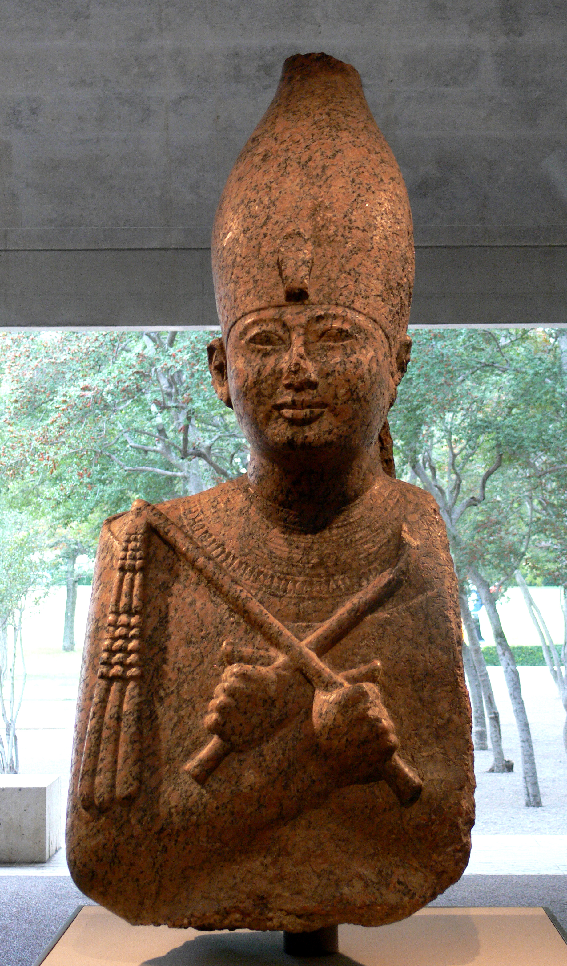 Portrait Statue of Pharaoh Amenhotep II